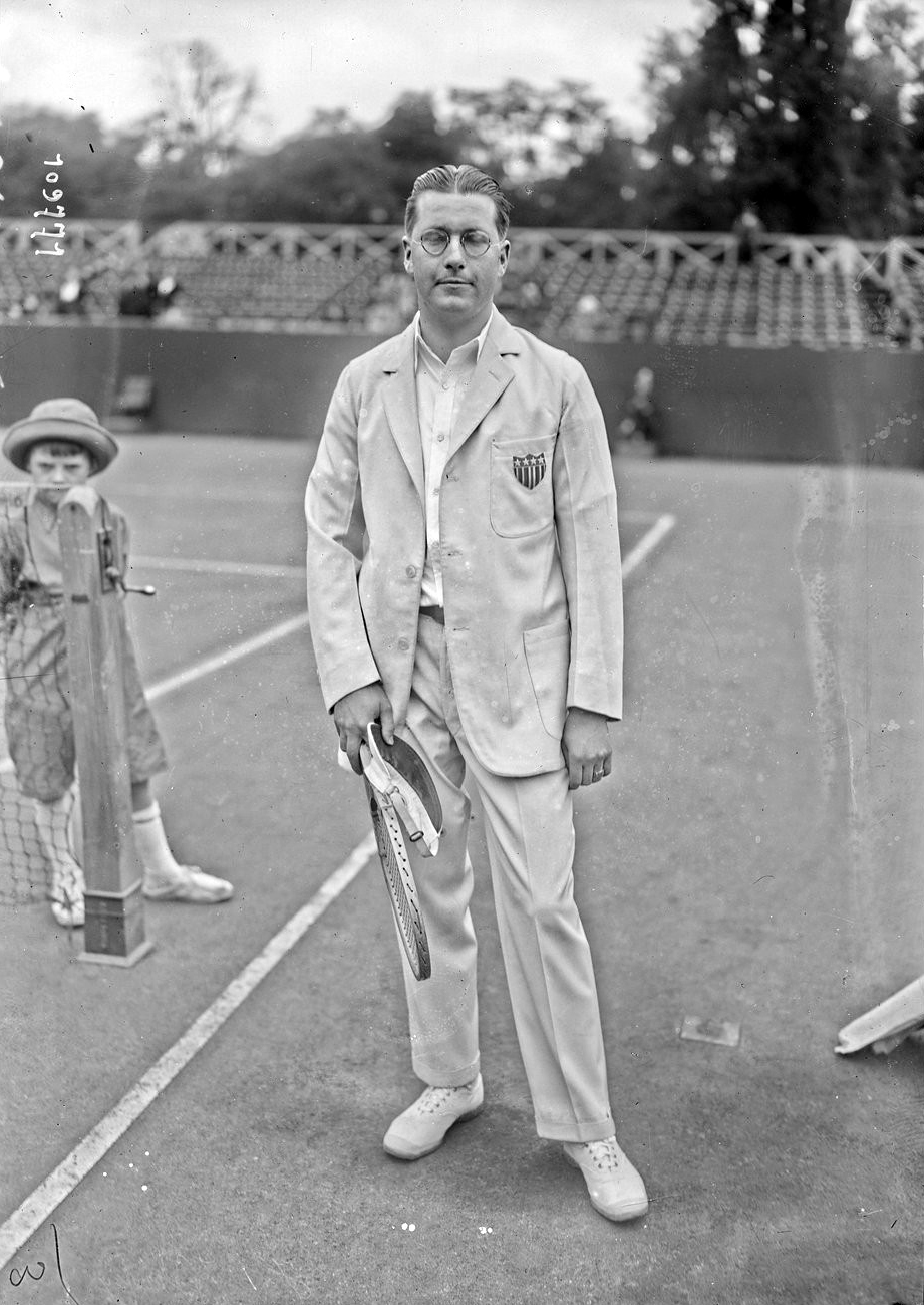 American tennis player Howard Kinsey at Croix-Catelan, Paris.